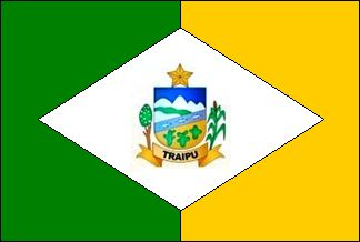 Bandeira